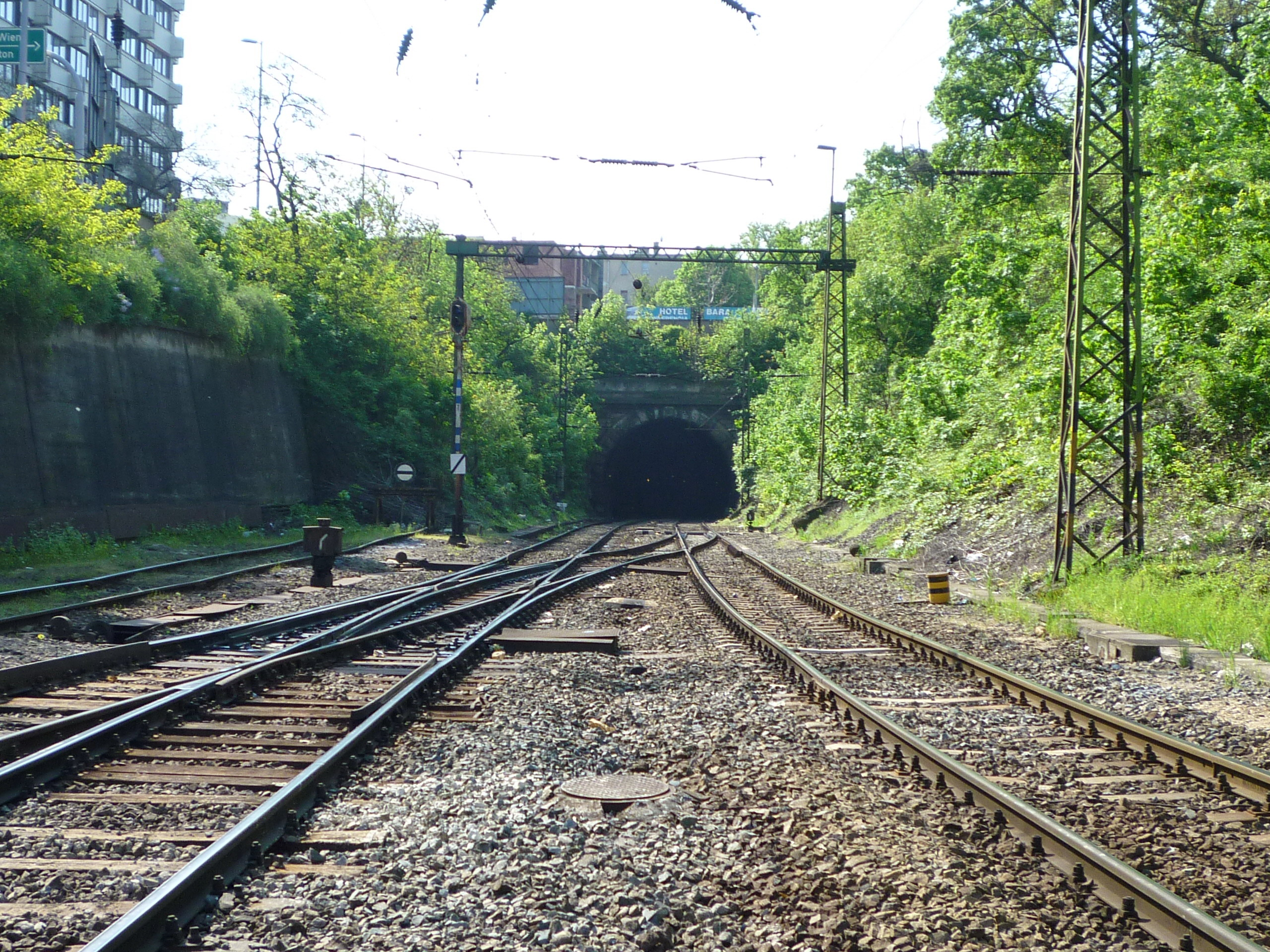 The northern entrance of the tunnel between Budapest Déli pályaudvar (Budapest South railway station) and Kelenföldi pályaudvar (Kelenföld railway station, Hungary).